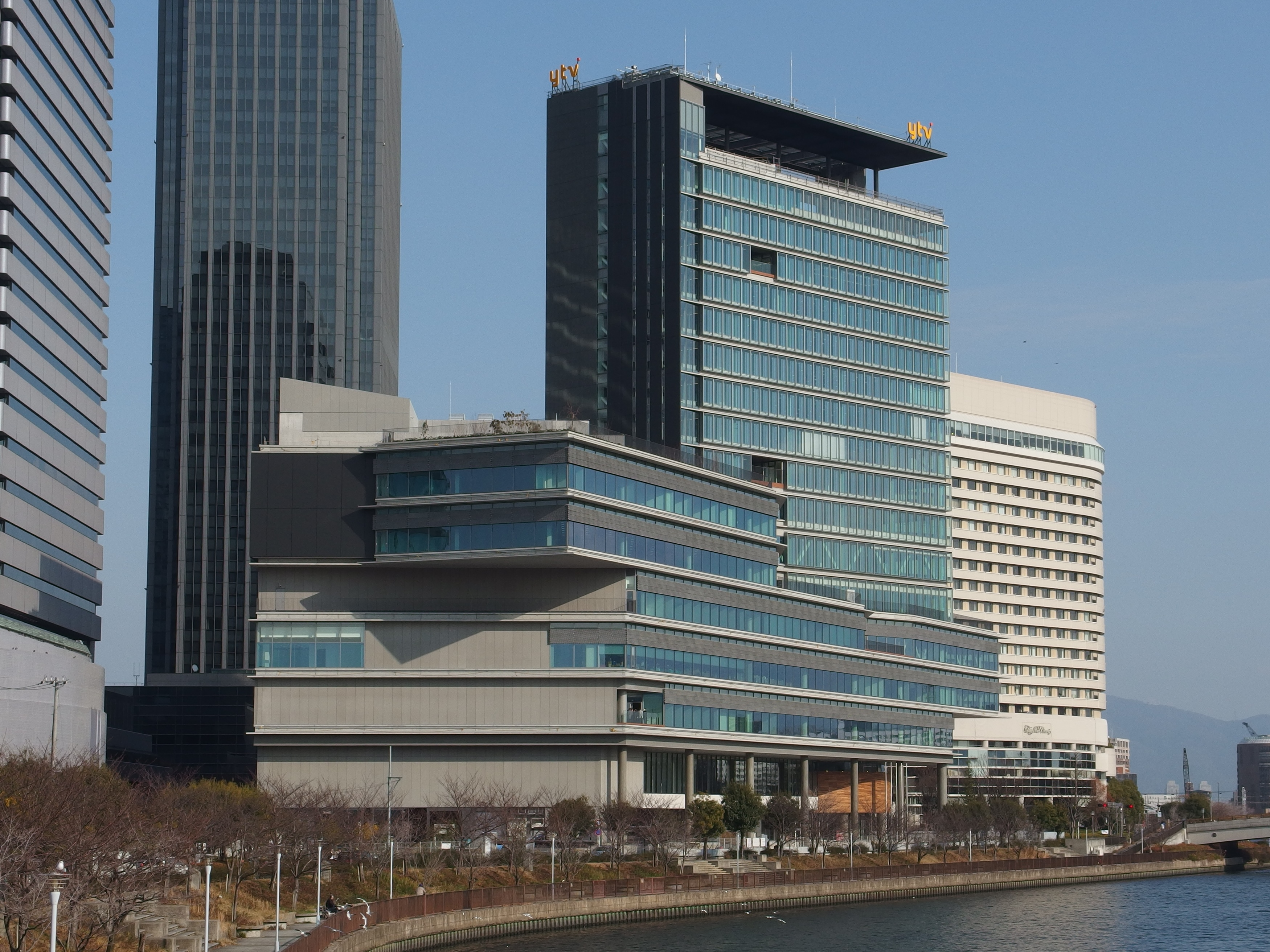 Yomiuri Telecasting Corporation in Osaka, Osaka Prefecture, Japan